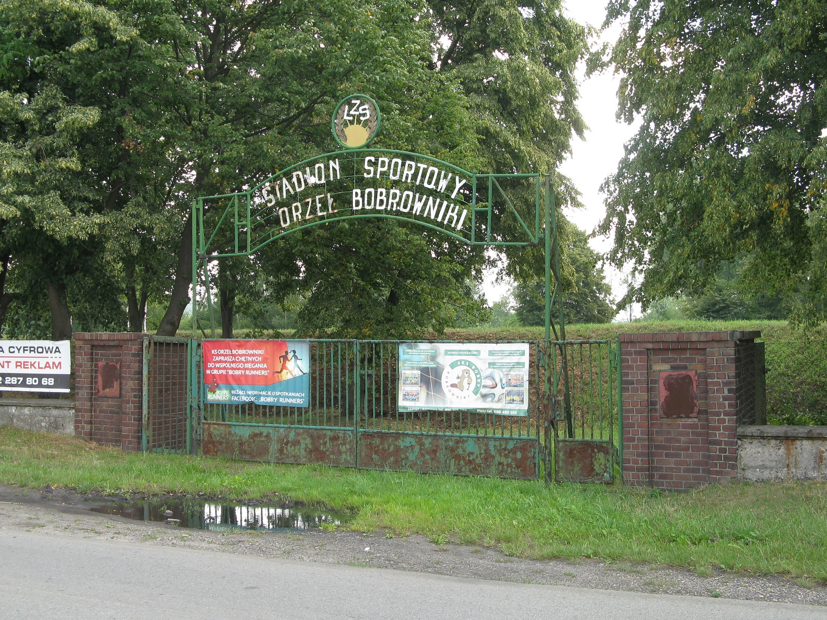 KS Orzeł Bobrowniki stadium gate in Bobrowniki, Poland.